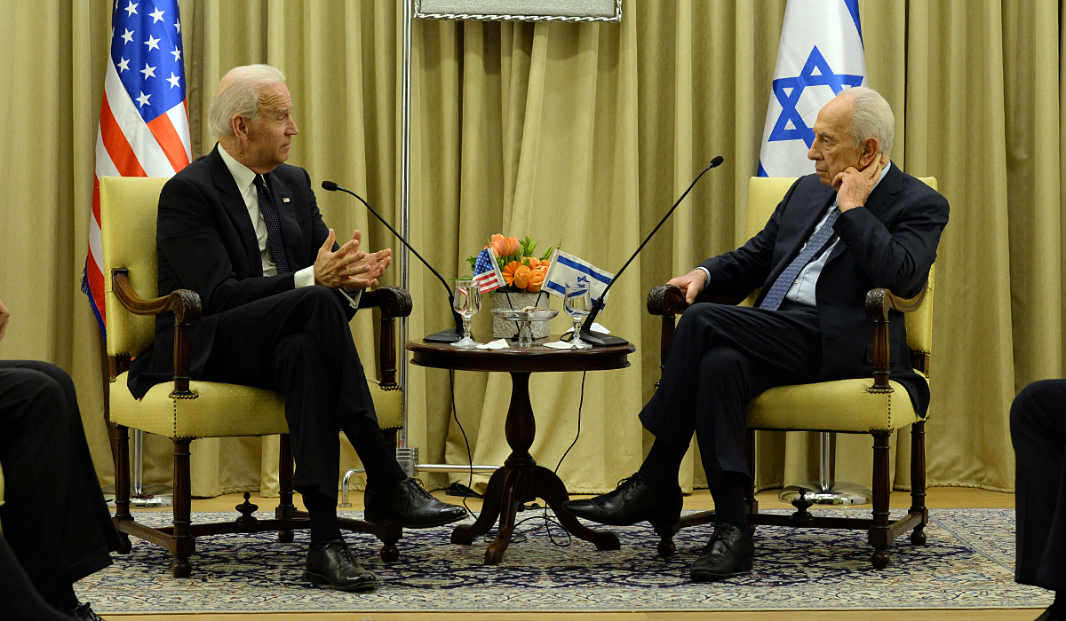 Vice President Joe Biden meets with Israeli President Shimon Peres in Jerusalem on January 13, 2013. [State Department photo by Matty Stern/ Public Domain]